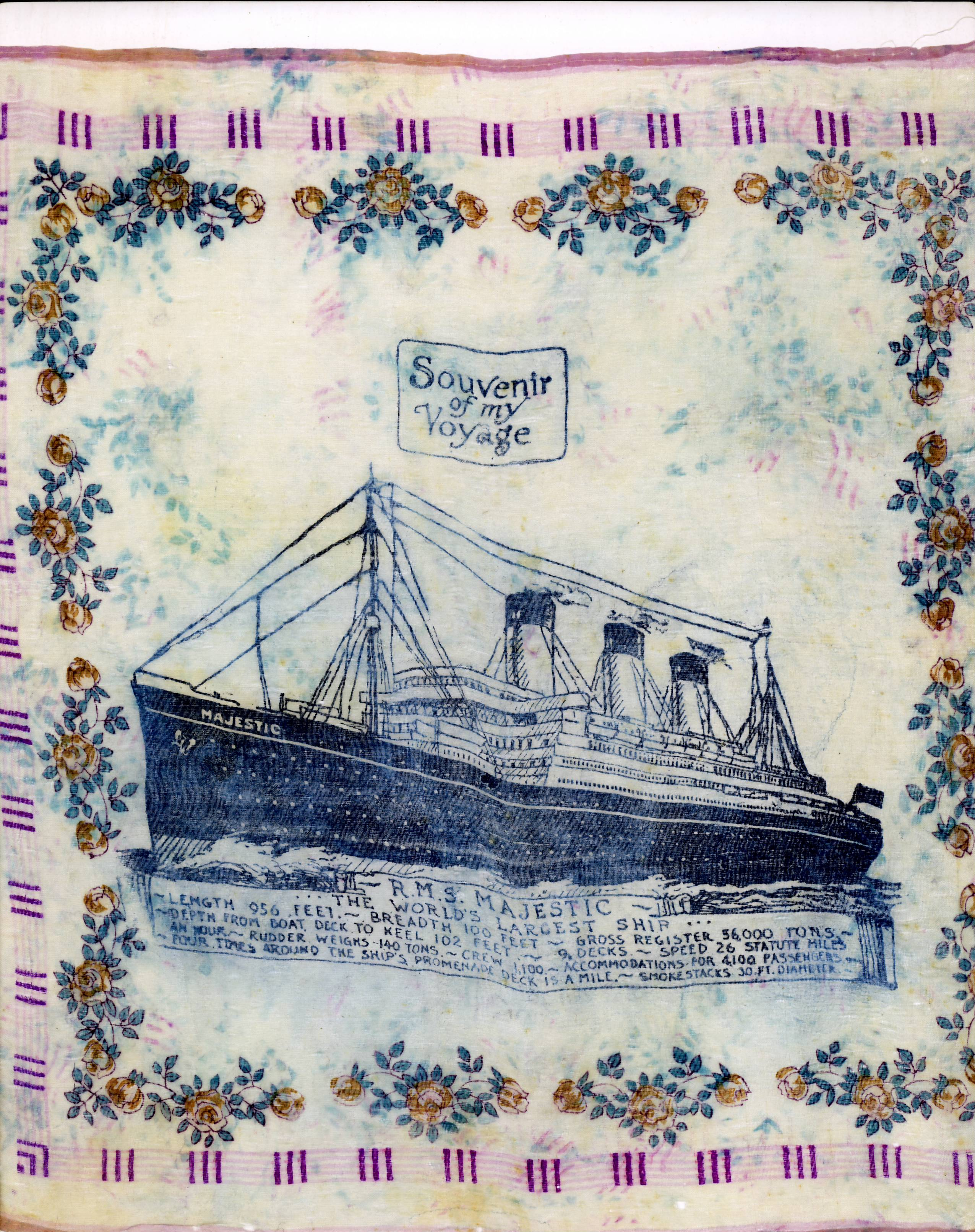 This souvenir silk handkerchief was given to my great grandfather to my great grandmother - date unknown